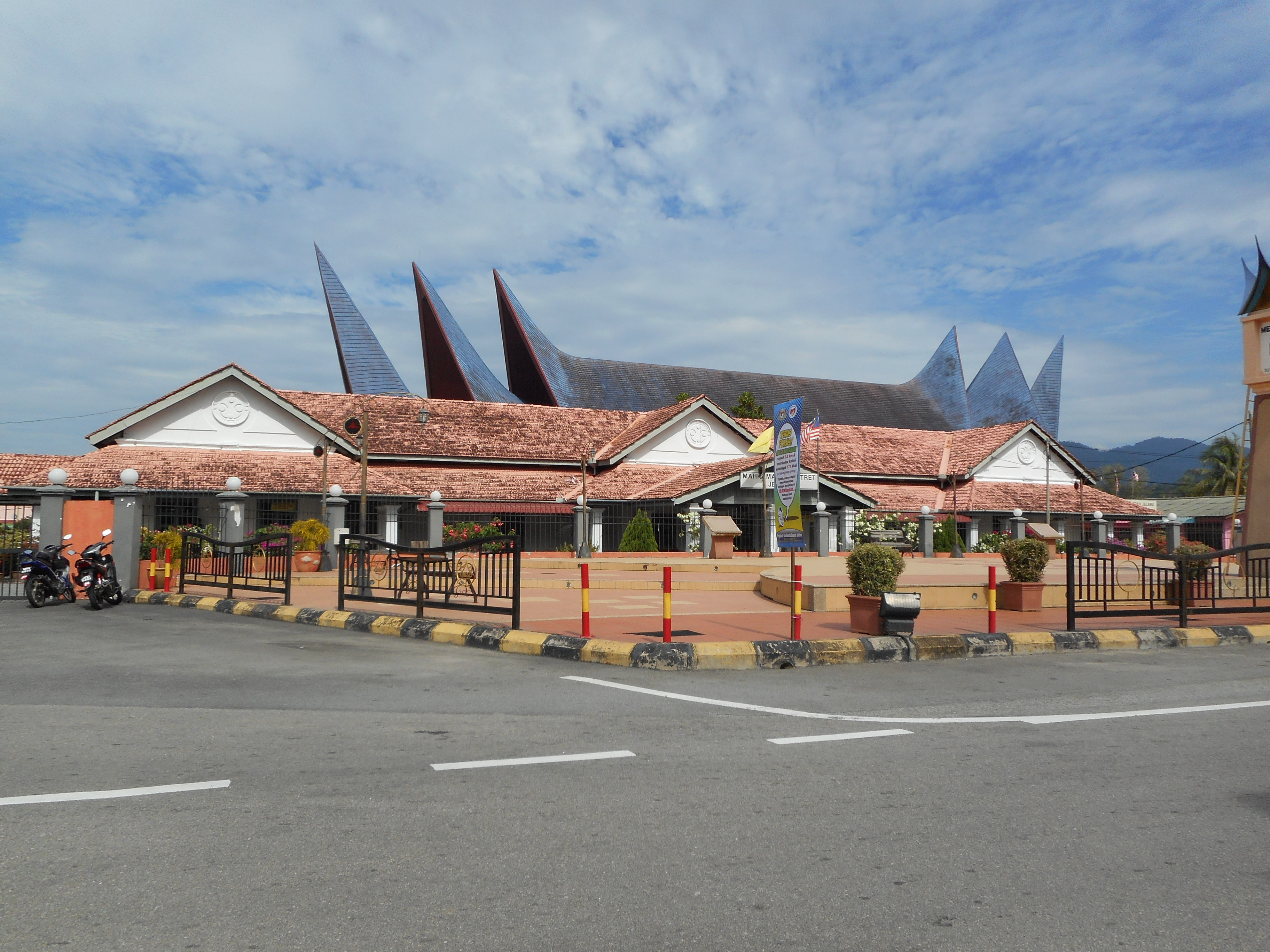 Jelebu Magistates' Court, Kuala Klawang, Jelebu, Negeri Sembilan, Malaysia